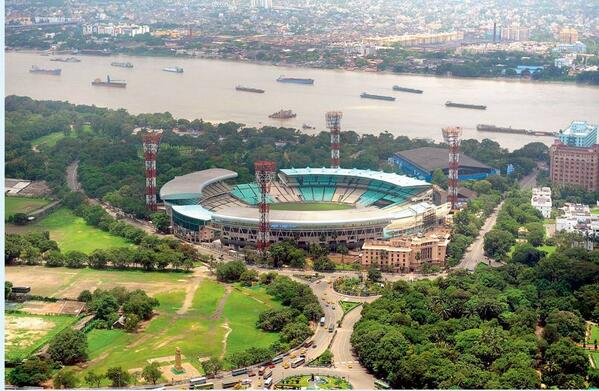 Eden Gardens View from Ochterlony Monument near to the stadium.